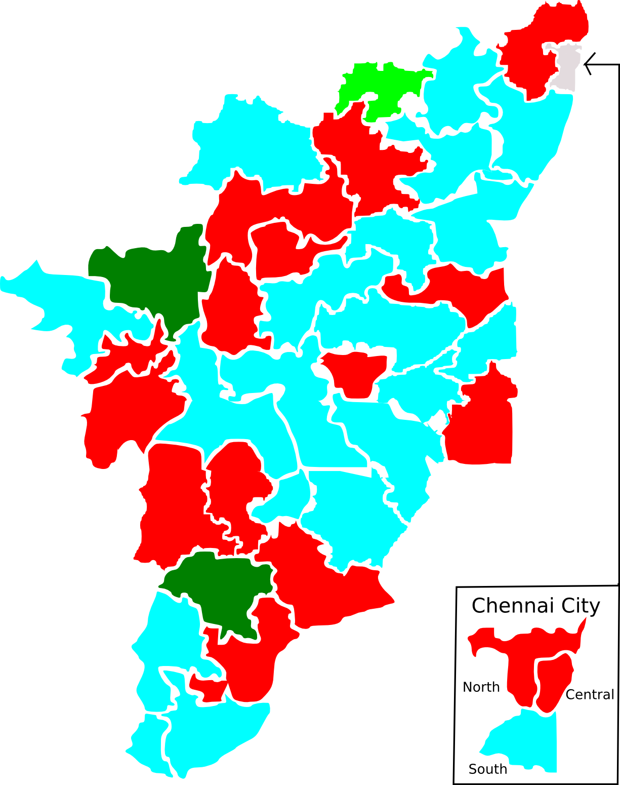 1980 Lok Sabha Election map for Tamil Nadu. Map is based on ECI drawn map. Results are based on ECI website.